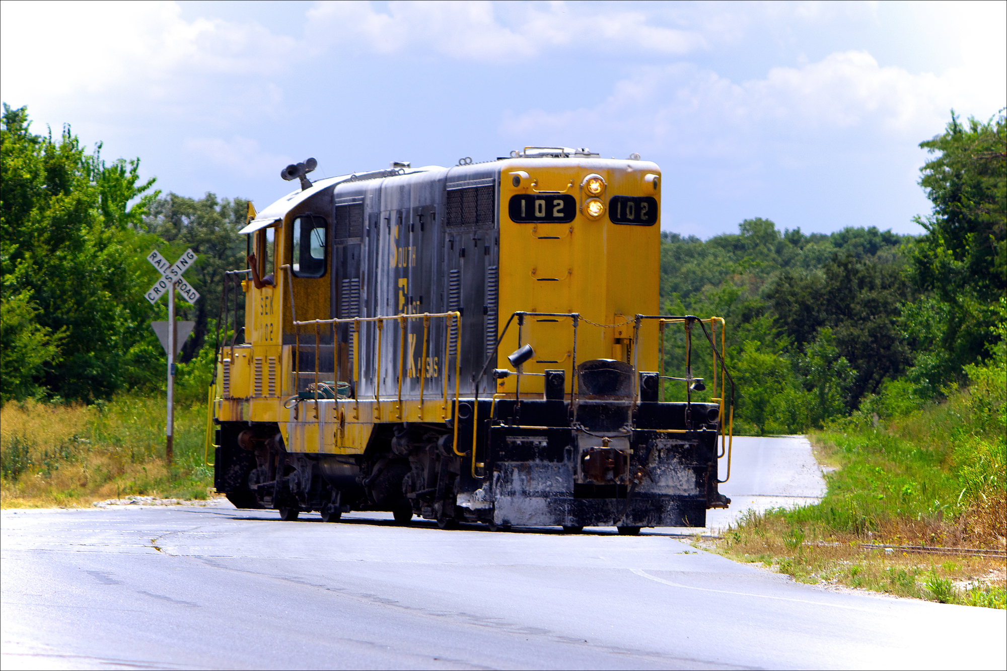 The mystery shortline railroad locomotive has made it past the bridge and through the dense brush and is now crossing the Dwight Mission Road to reach it's customer. I'm not sure if the engineer is giving me a friendly wave or telling me "I'm number one". In the end, it was me that provided him some entertainment. For some reason, right after this picture was taken, my car decided to leave without me. My car slipped out of park and decided to roll down the highway on it's own. Fortunately, I was able to catch it, and by that time the locomotive was parallel to me. The engineer leaned out of his cab and shouted "Great Catch!". I smiled, gave him the thumbs up, and sped off in embarassment.